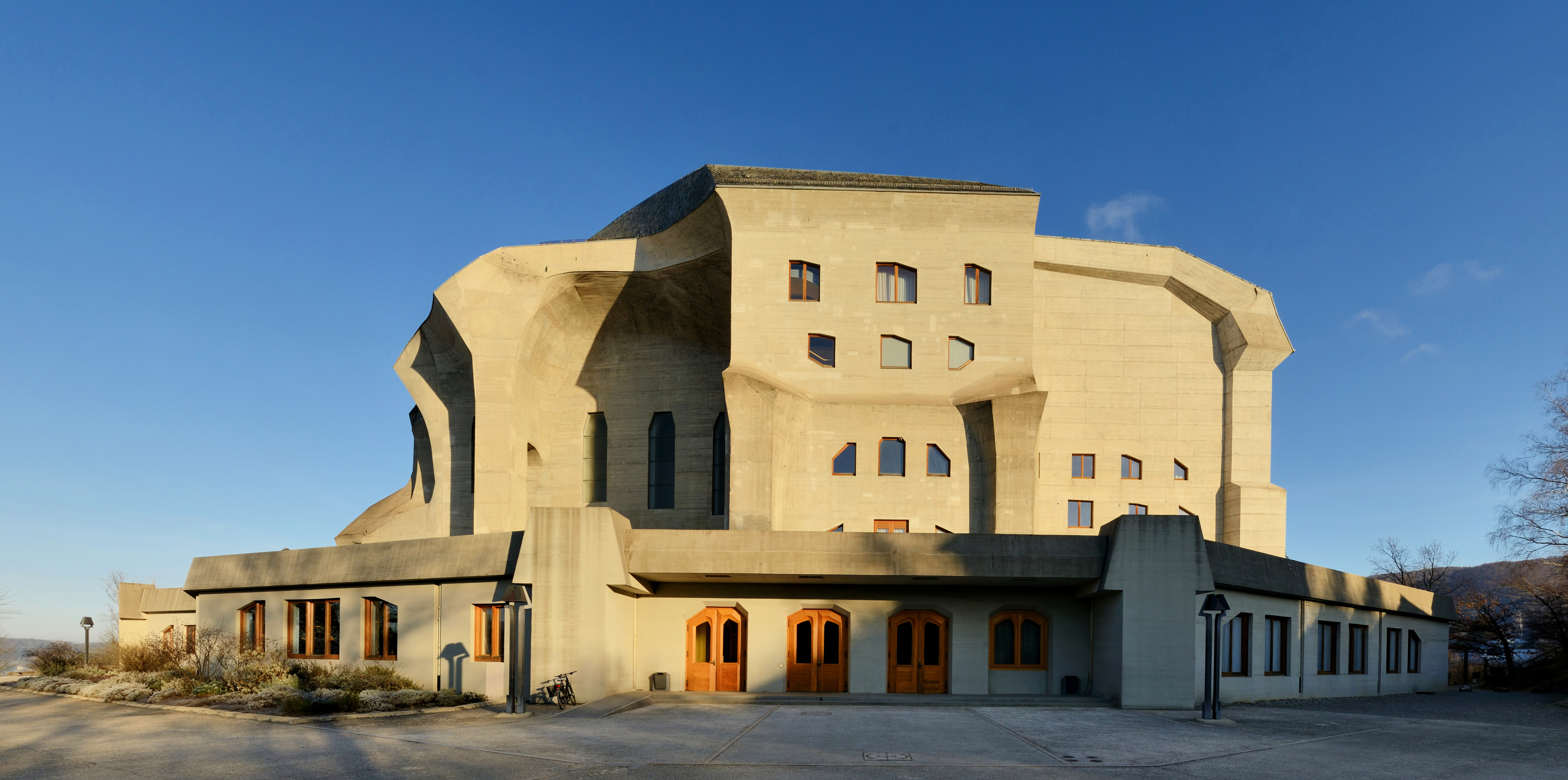 Goetheanum from south